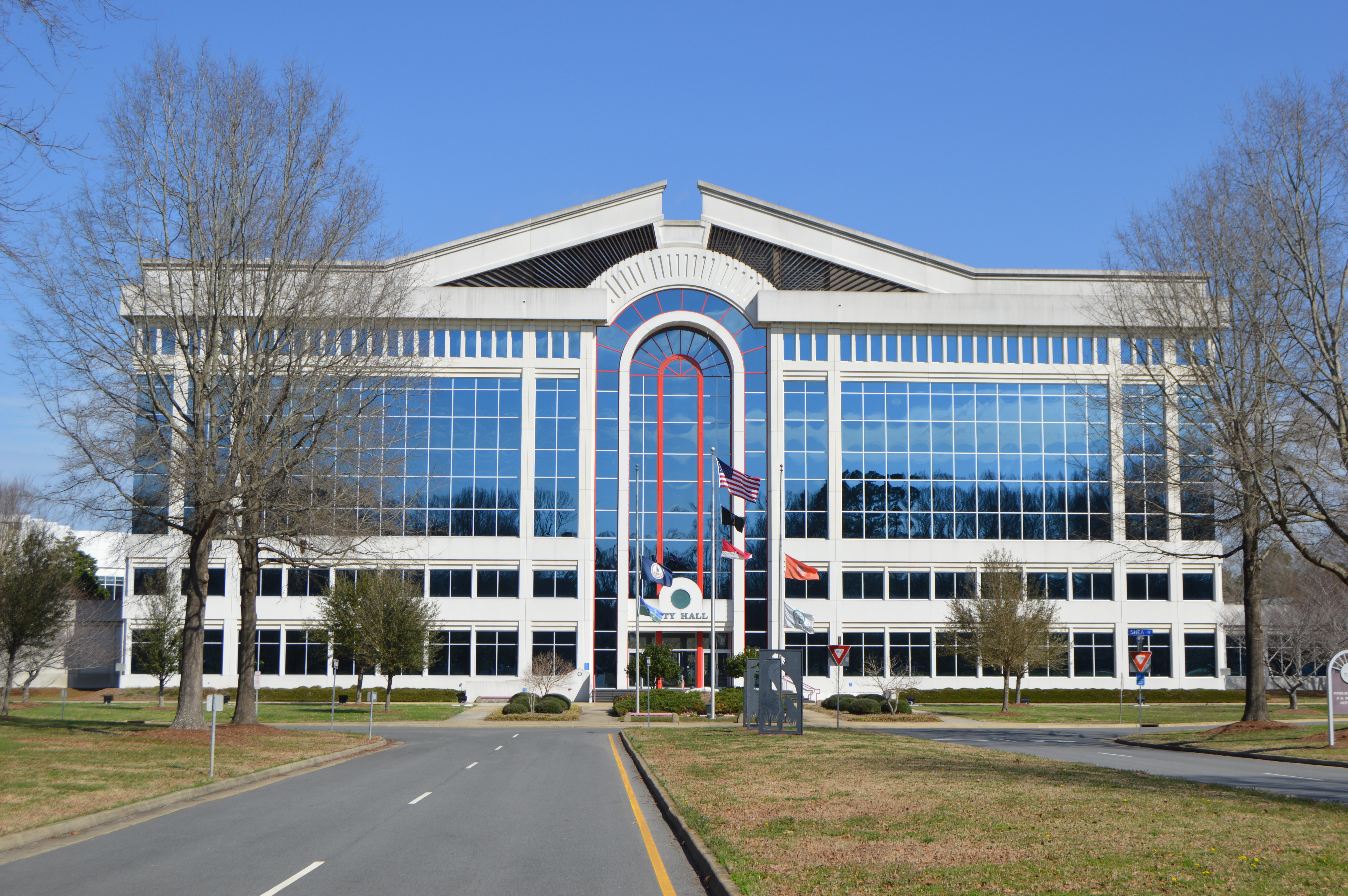 Front of City Hall in Chesapeake, Virginia, United States, located off Cedar Road west of Battlefield Boulevard.